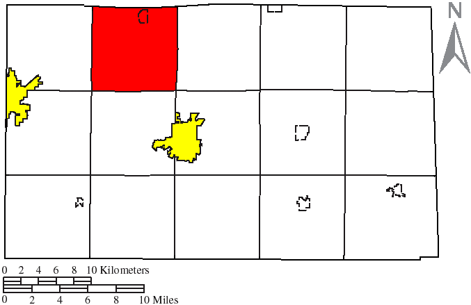 Made by the US Census and modified by myself